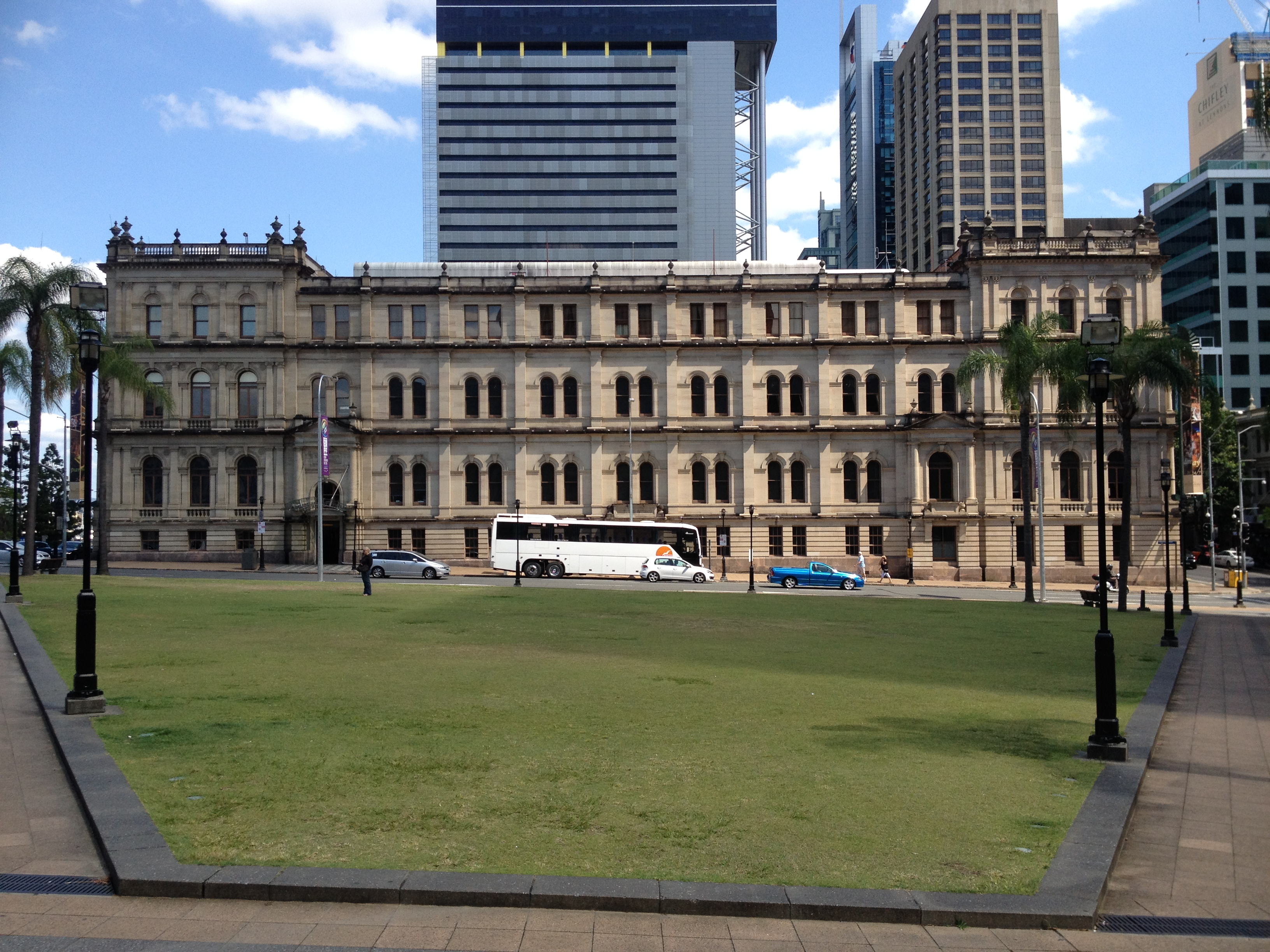 Queens Gardens and Treasury Building, Brisbane Square building, Brisbane